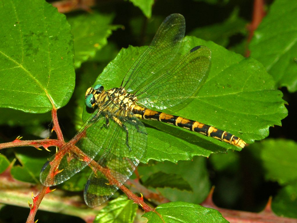 O. forcipatus, female